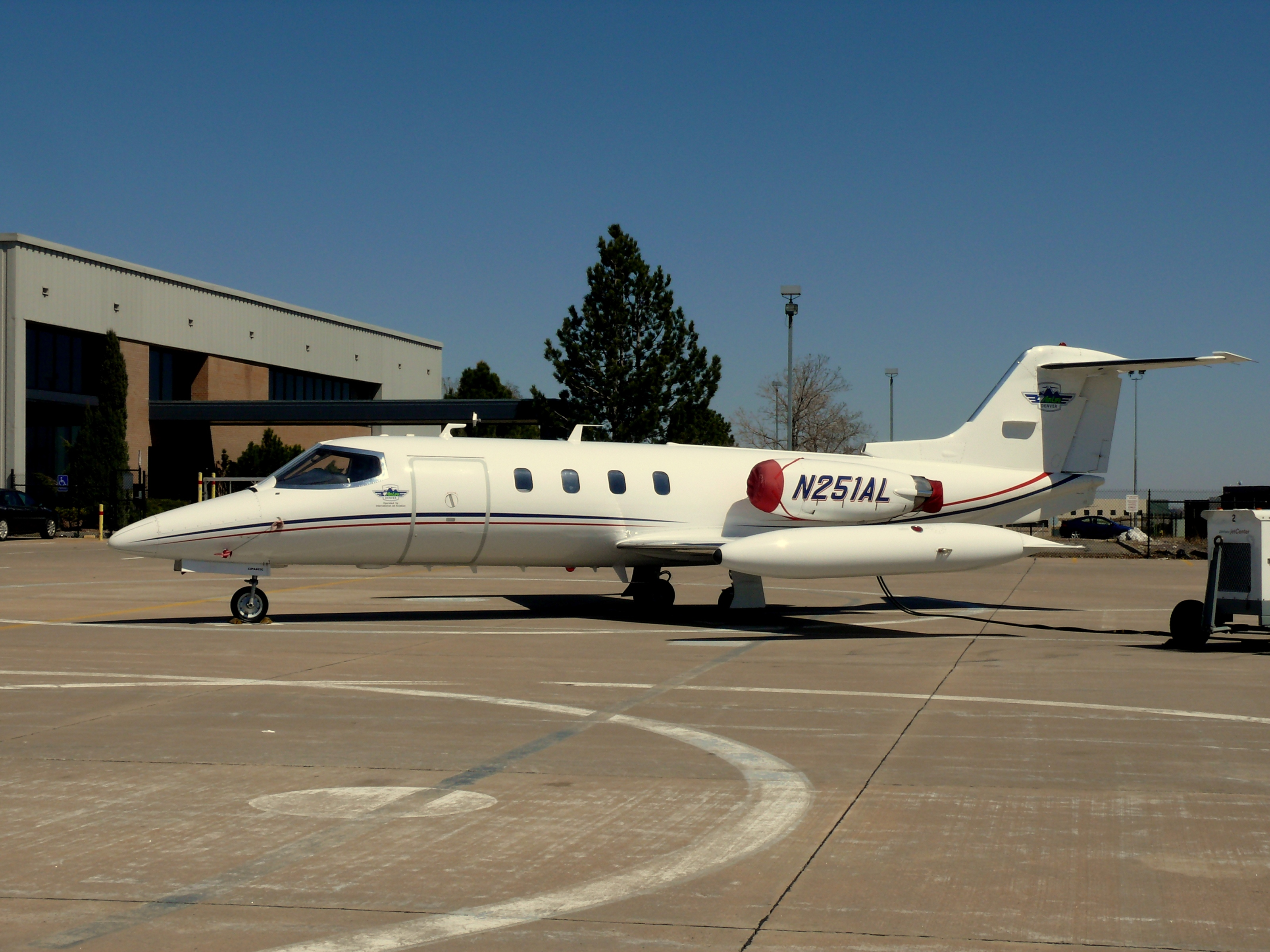 A Learjet 25D photographed at Centennial Airport, Colorado, USA.